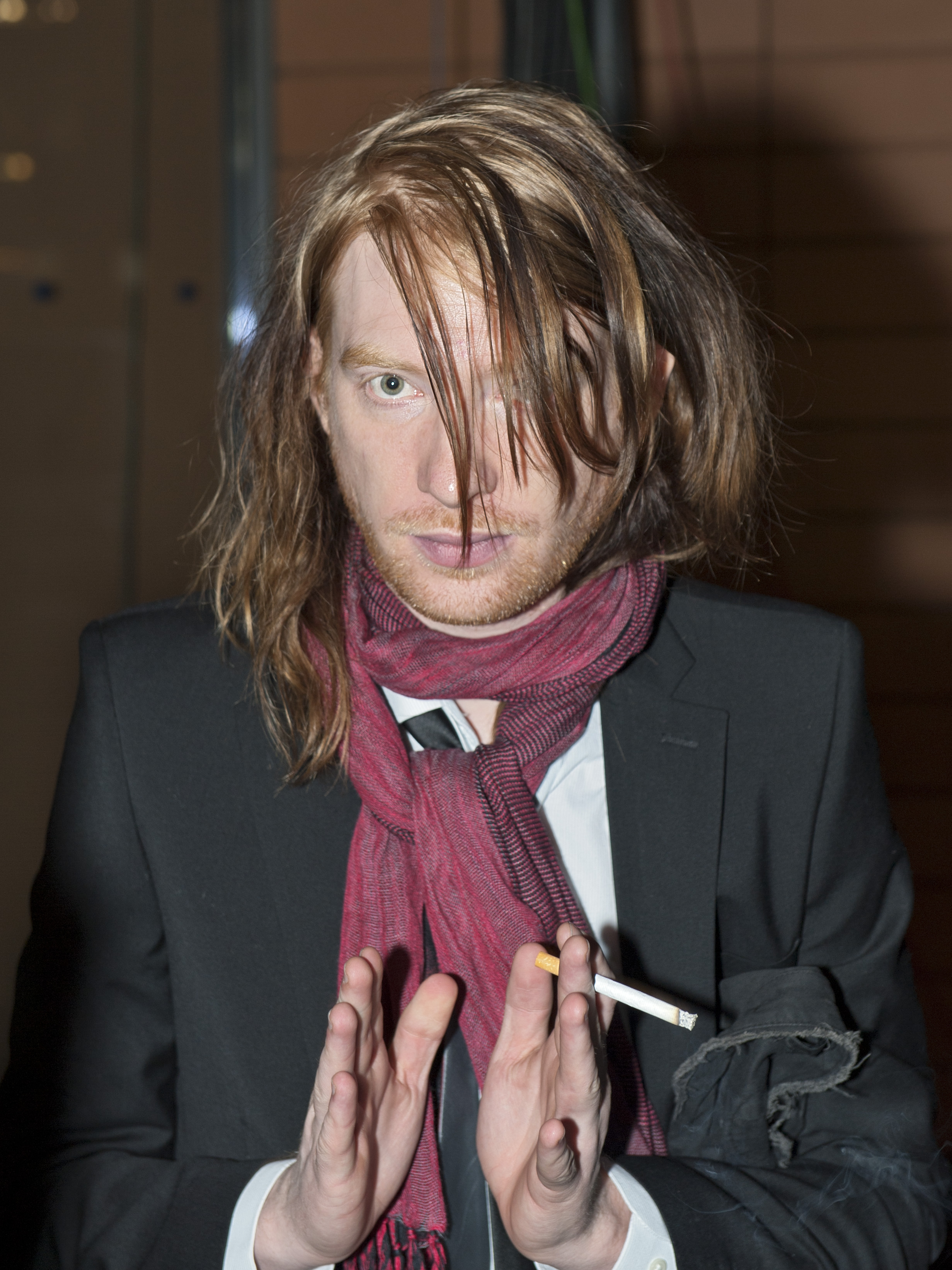 Irish actor, director and writer at the Berlin Film Festival 2011